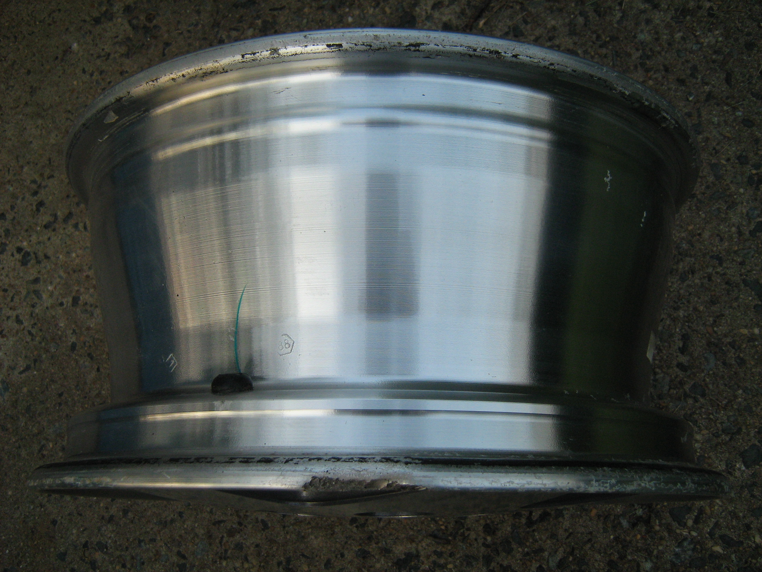 Detail of a scratched rim (visible on bottom of the wheel in the picture). Top view of a one-piece alloy wheel from a 1993 Jeep Grand Cherokee. .